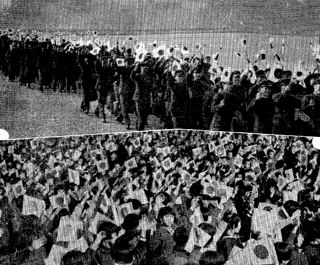 Japanese citizens celebrating the fall of Nanking